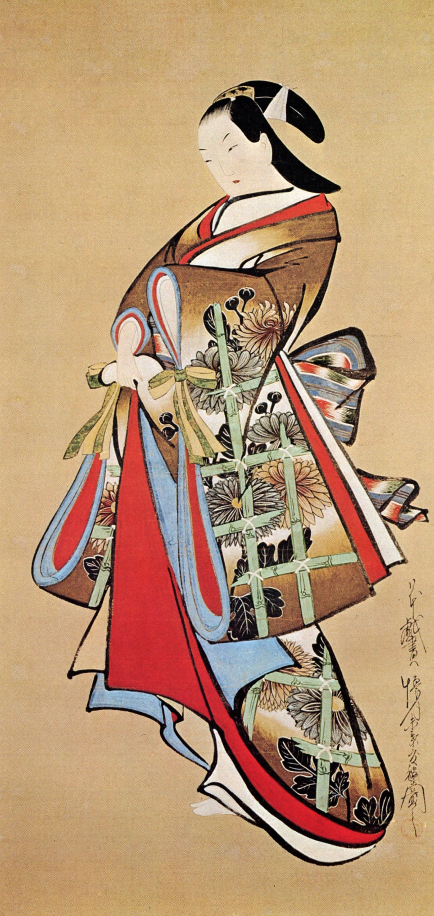 Bijin (美人, "beauty"). Color on silk.